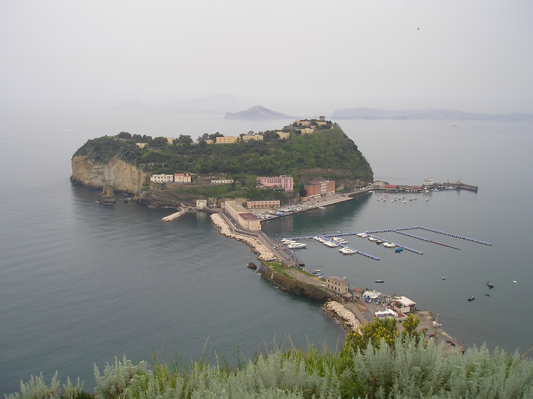 Nisida (island), seen from the Posillipo